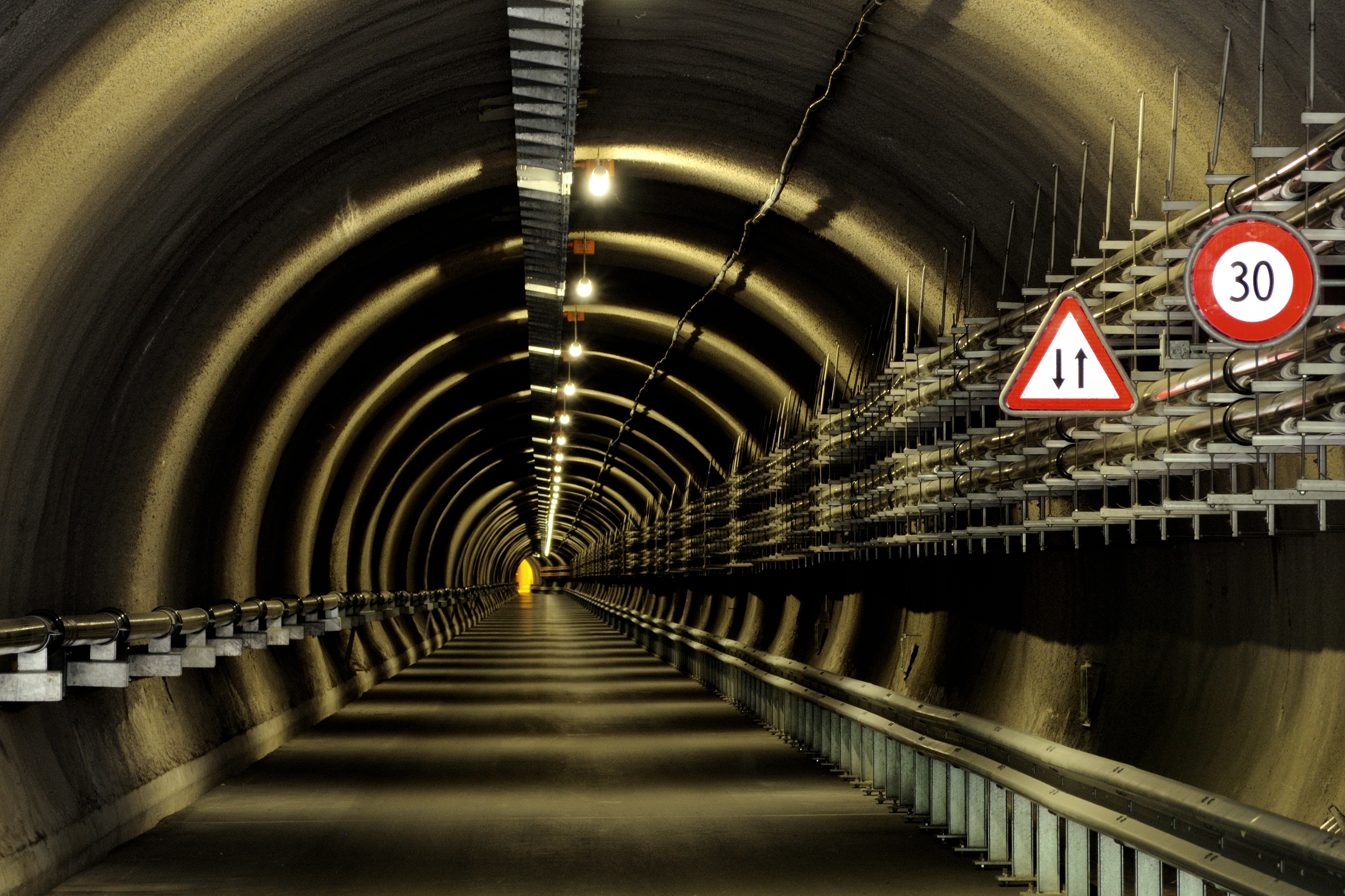 The one kilometre long access tunnel from Sedrun to the shafts of Sedrun multifunction station (view from the portal)